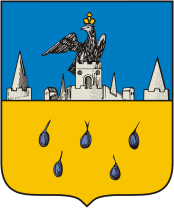 Kromy (Oryol oblast), coat of arms (1781)